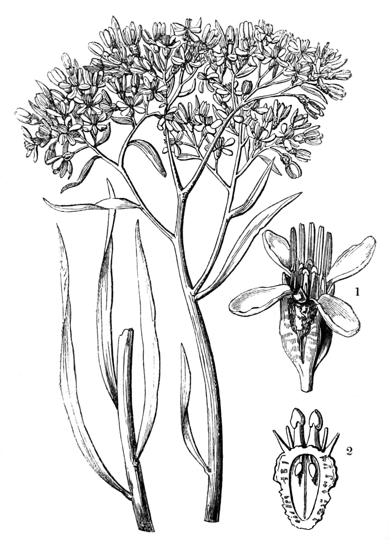 This is a scan of Figure 1 from John Lindley's A Sketch of the Vegetation of the Swan River Colony. It depicts the flower of Loudonia aurea (now Glischrocaryon aureum).